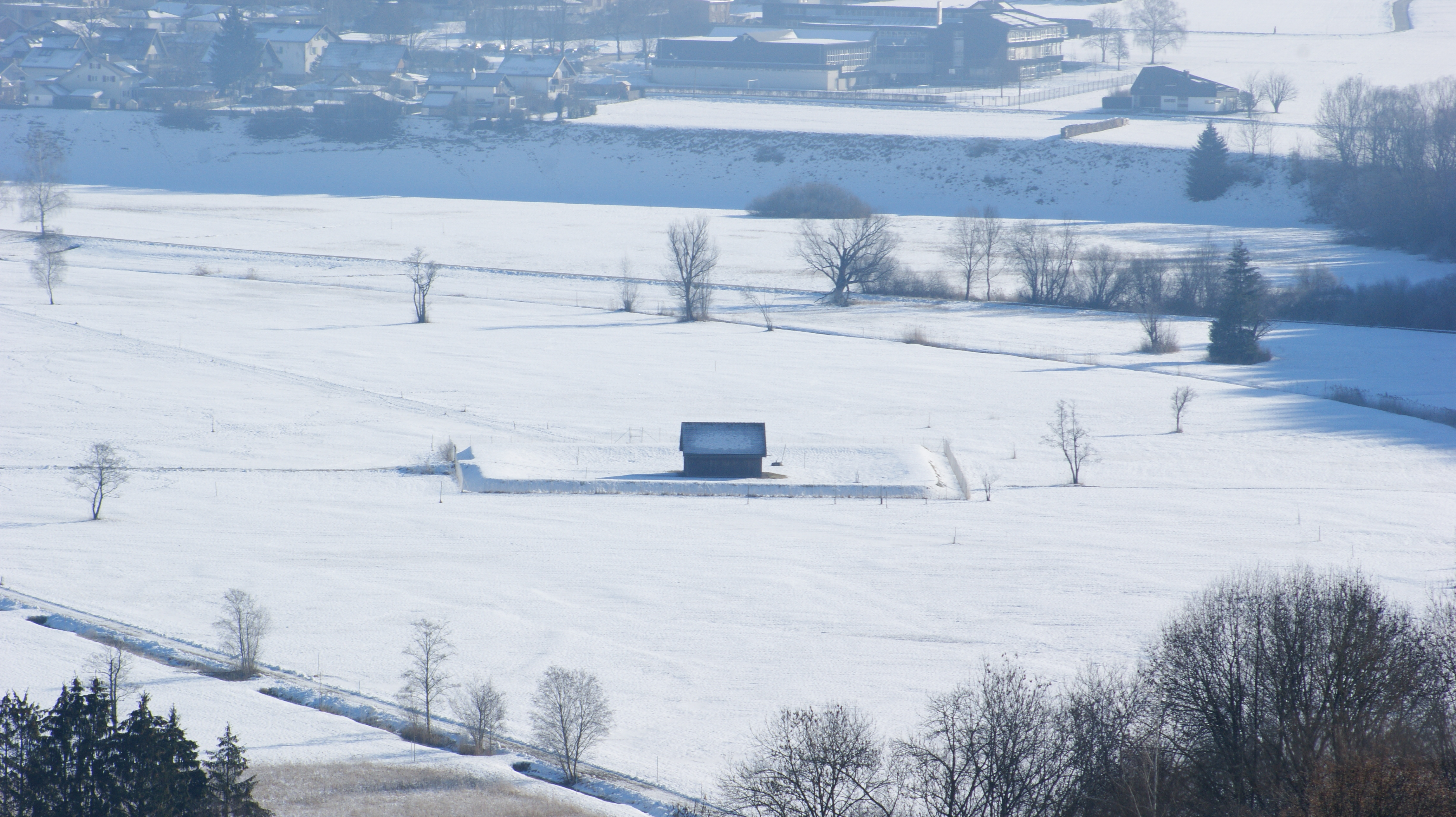 Frastanzer Ried (bog) in Frastanz, Vorarlberg, Austria. View from Fellengatter on the horizontal wells for the public water supply in Feldkirch and Frastanz.